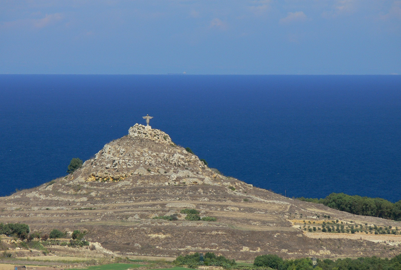 The hill of Tas-Salvatur on Gozo